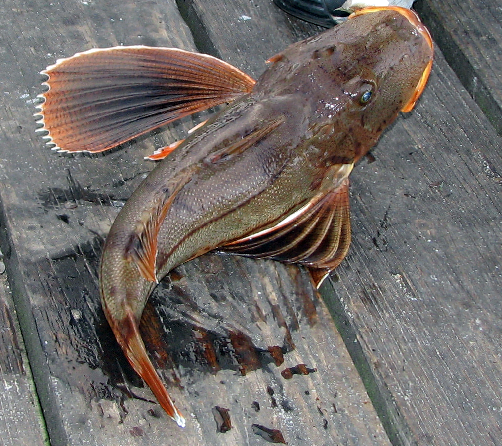 A Sea Robin, Caught in New Haven Harbor